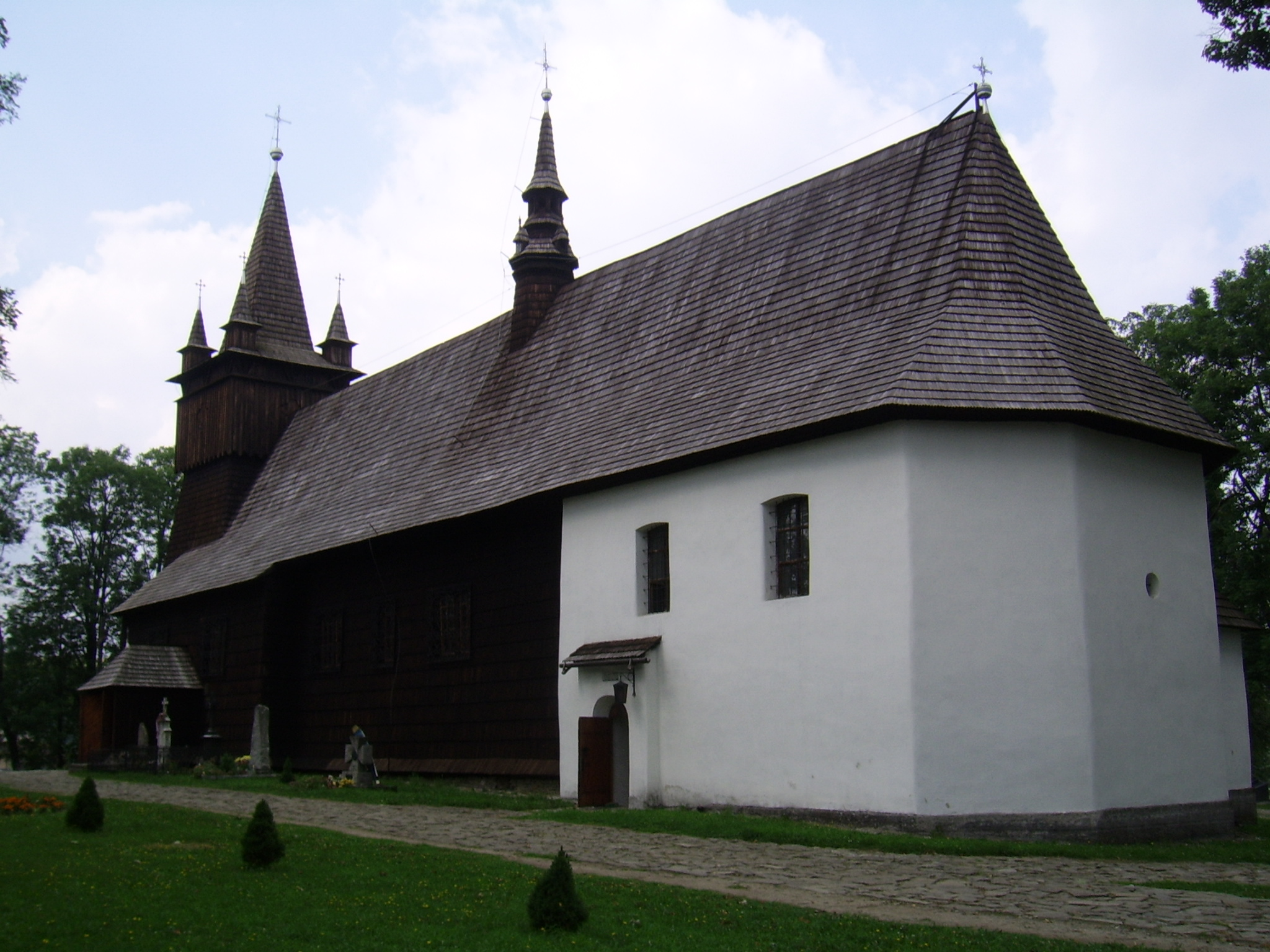 John the Baptist church in Orawka, Poland